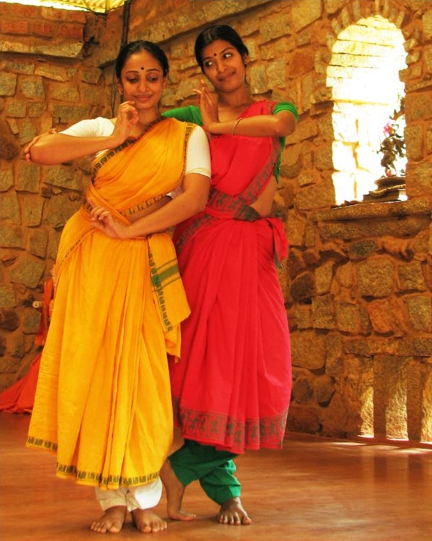 Classical Dancers at Nrityagram, a dance village, near Bangalore.